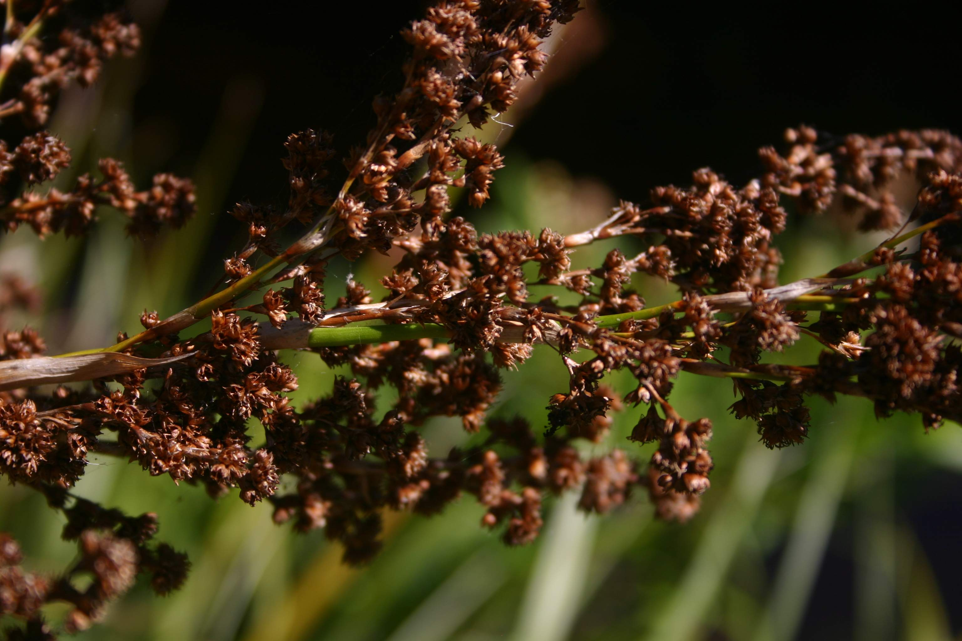 Prionium serratum on Bloukrans River (Garden Route)